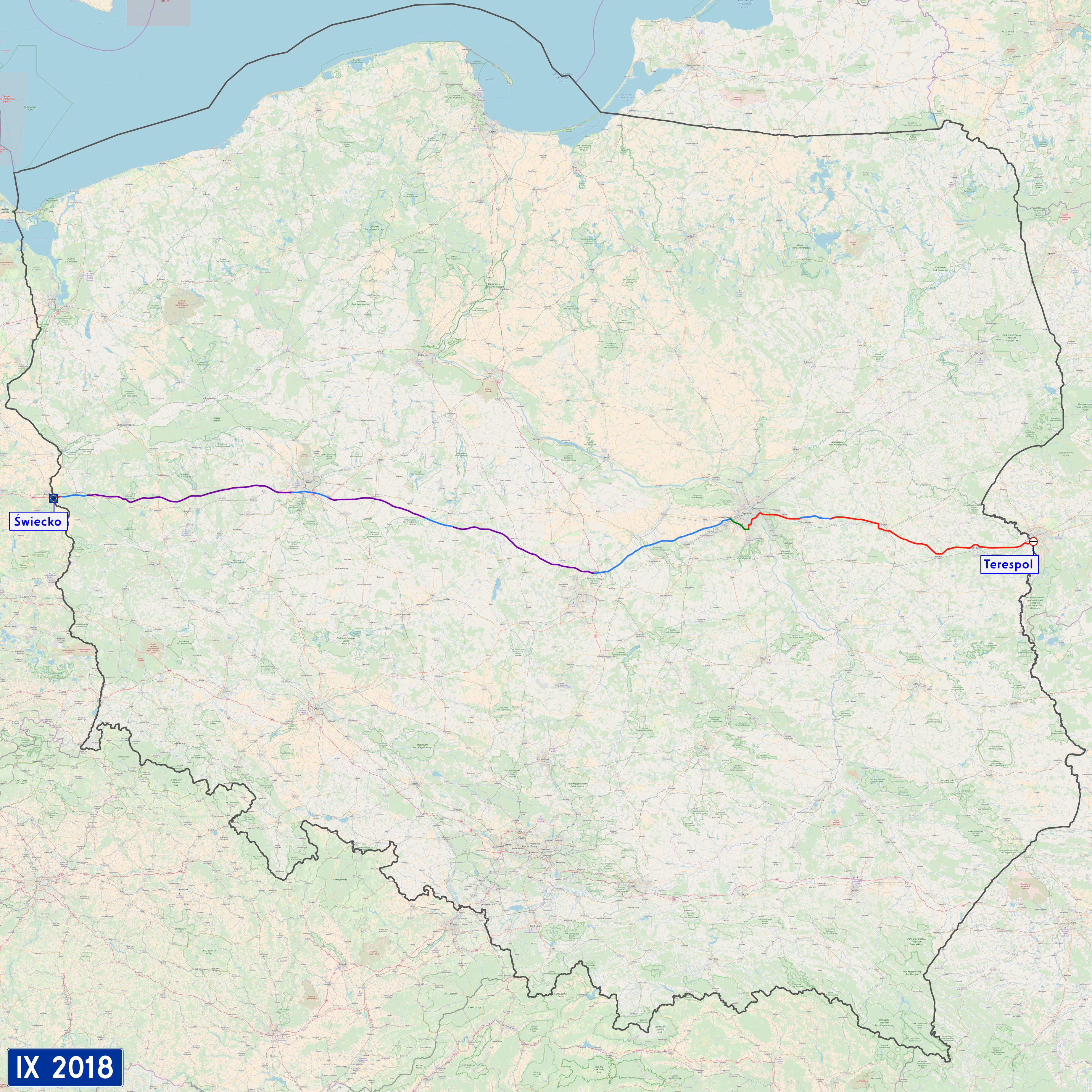 Map of Polish national road 2. Background from OpenStreetMap. National road 2 Expressway S2 (Southern Warsaw Bypass) Motorway A2 (toll) Motorway A2 (free)